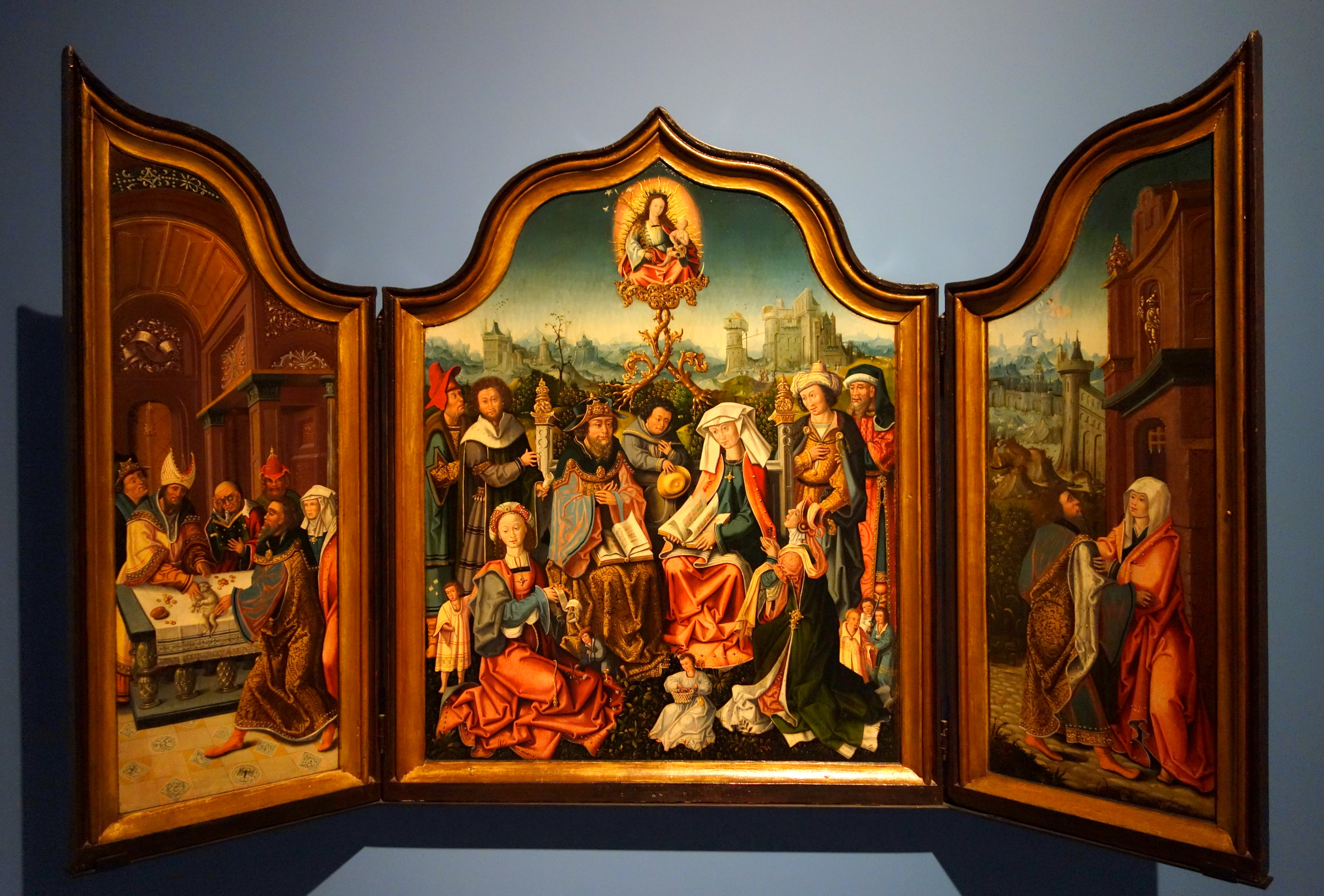 Exhibit in the Museum M - Leuven, Belgium. This artwork is in the public domain because the artist died more than 70 years ago.